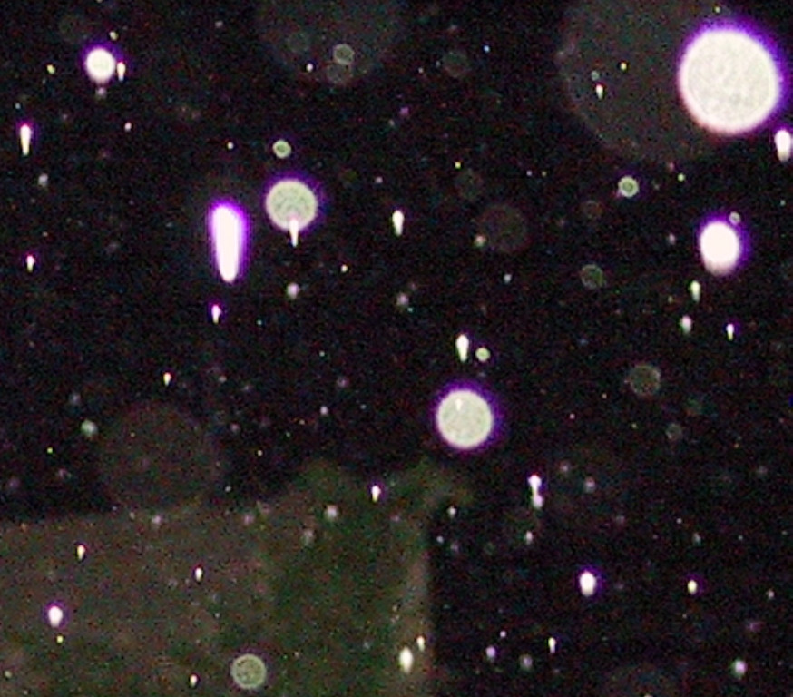 Coma and Chromatic aberration.